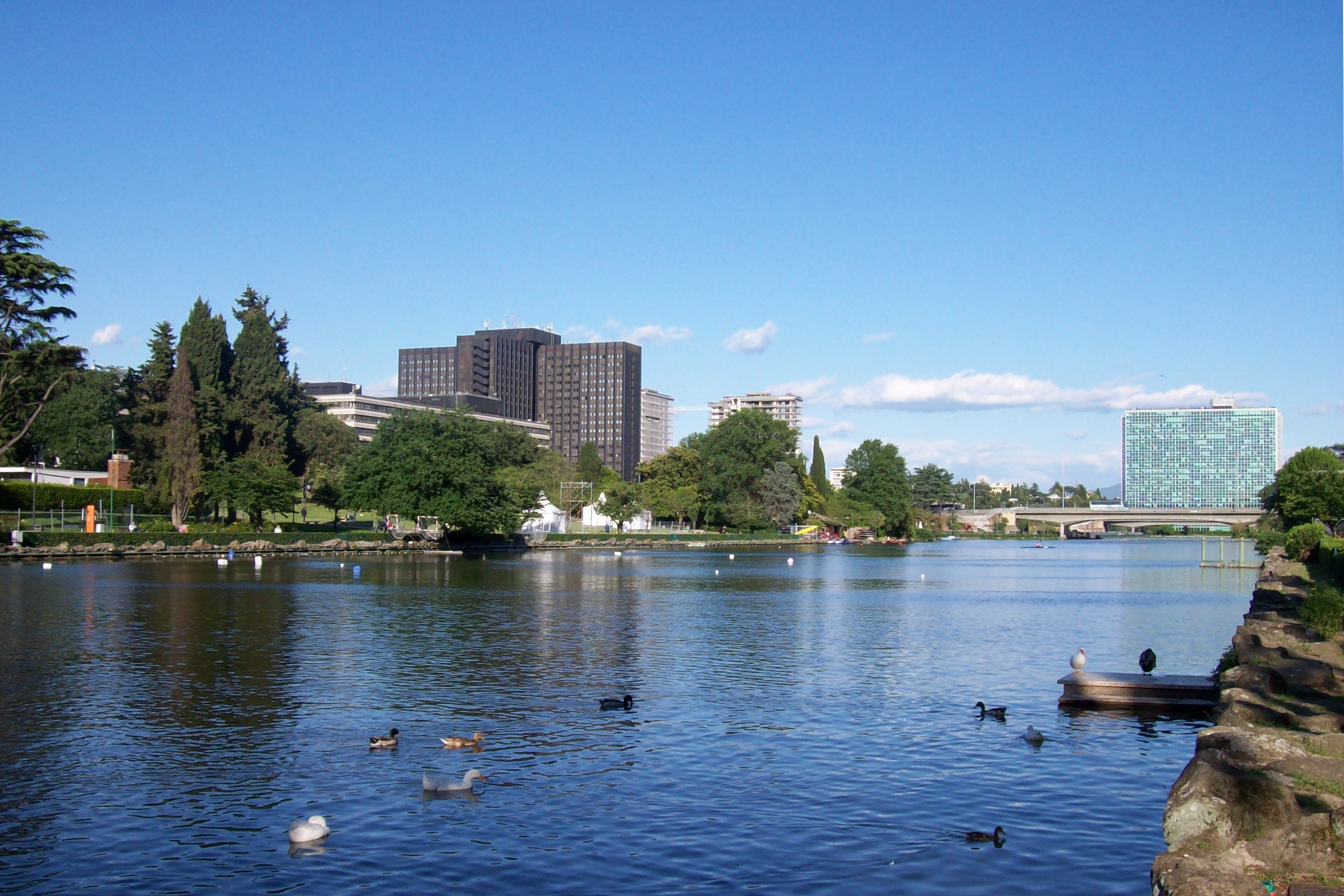 The artificial Lake EUR (Laghetto dell'Eur) in the Parco Centrale del Lago (Lake Central Park) at EUR, a 20th-century architecture quarter of Rome.